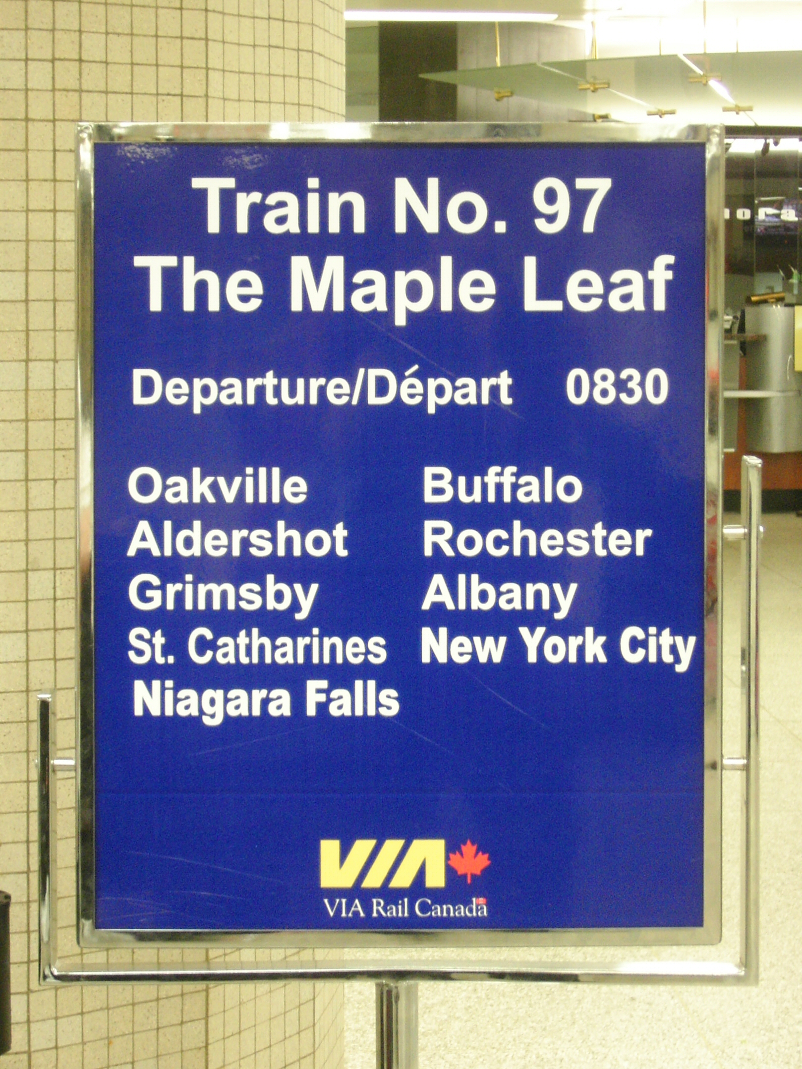 Sign in Union Station for the Via Rail Maple Leaf.